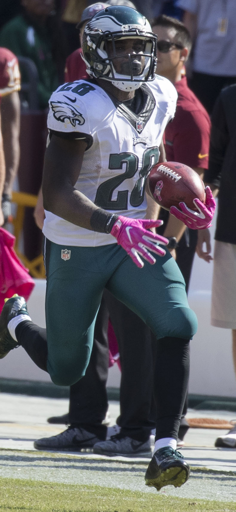 Photo of Philadelphia Eagles running back Wendell Smallwood